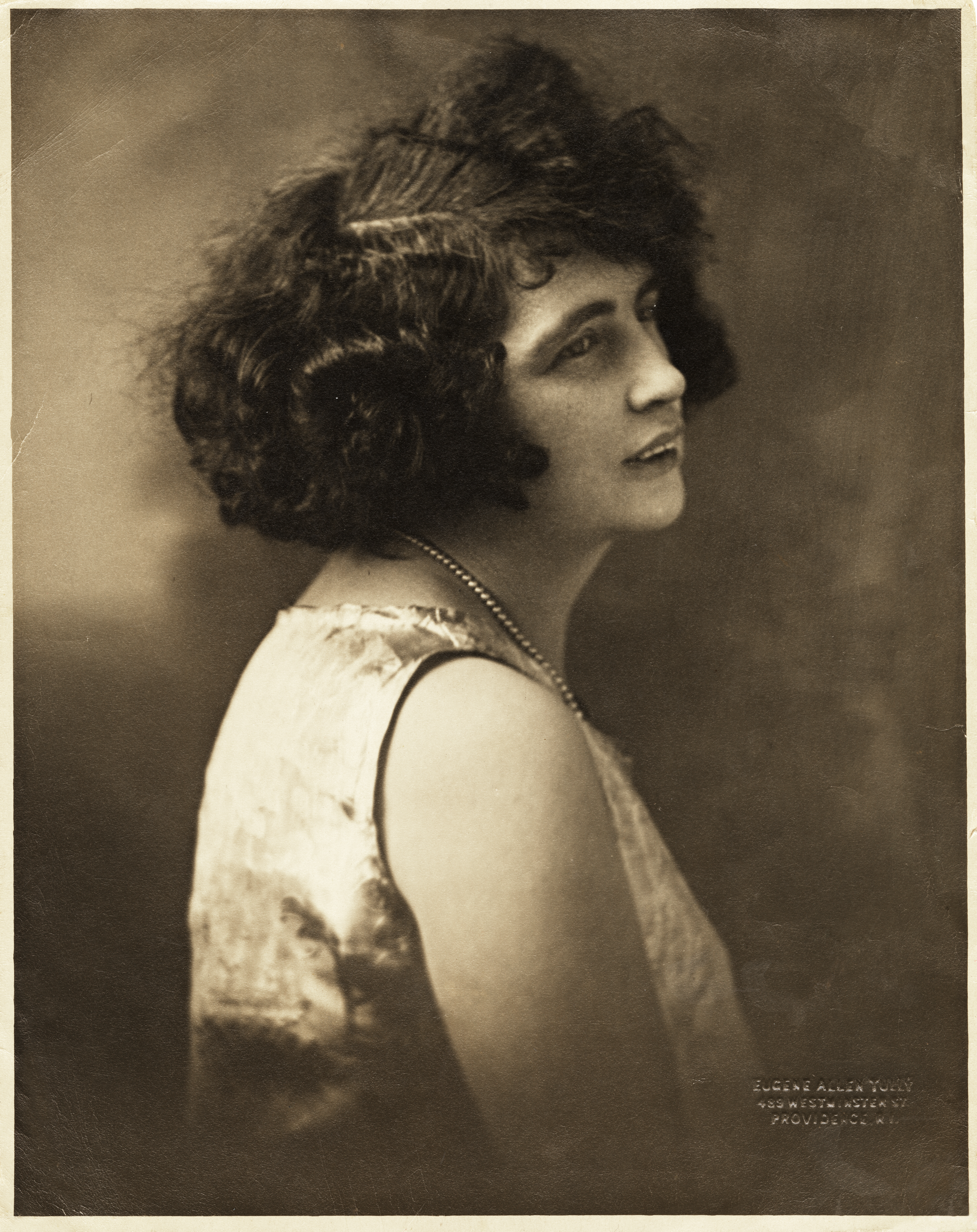 Edna Howland (born Sadie Edna Howland; September 22, 1886 – October 14, 1964) was an American vaudeville performer. She was best known for her piano playing and soprano singing. Between 1910 and 1920, she toured with her professional and romantic partner Jack Kammerer, an acrobatic comedian. Billed as Kammerer & Howland, the duo described themselves as a “Classical Comedy Singing and Talking Act,” and as performers of “Jollity and Jingles Mirthfully Mingled.” Howland retired from show business in the early 1920s.